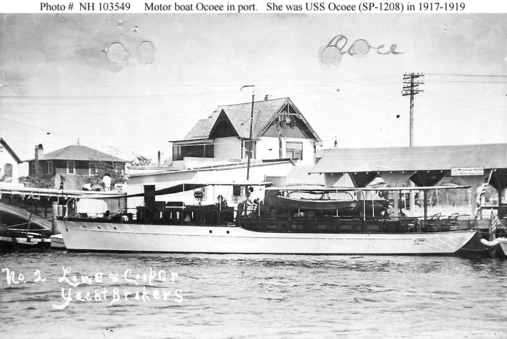 The motorboat Ocoee at a yachting facility prior to her service as the United States Navy patrol vessel .